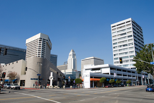 Weller Court in Little Tokyo